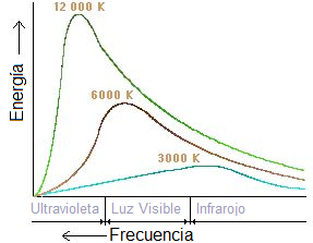 Proyecto de Innovación Docente 2013 de la ETSI de Telecomunicación UPM; coordinador P. Mareca, subido por Sonsoles Lopez